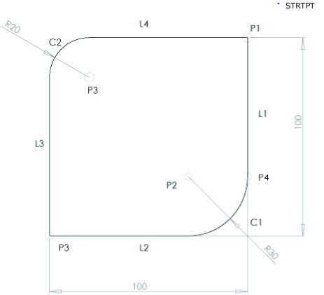 A SAMPLE APT PROGRAM